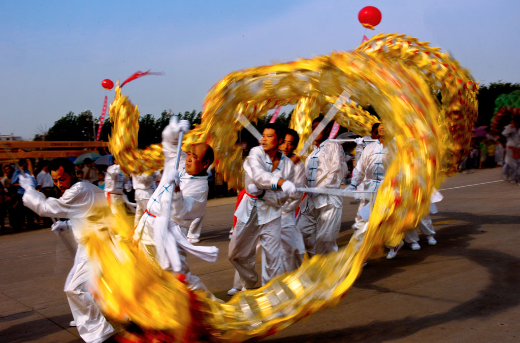 Dragon dances for Chinese New Year, 1996.